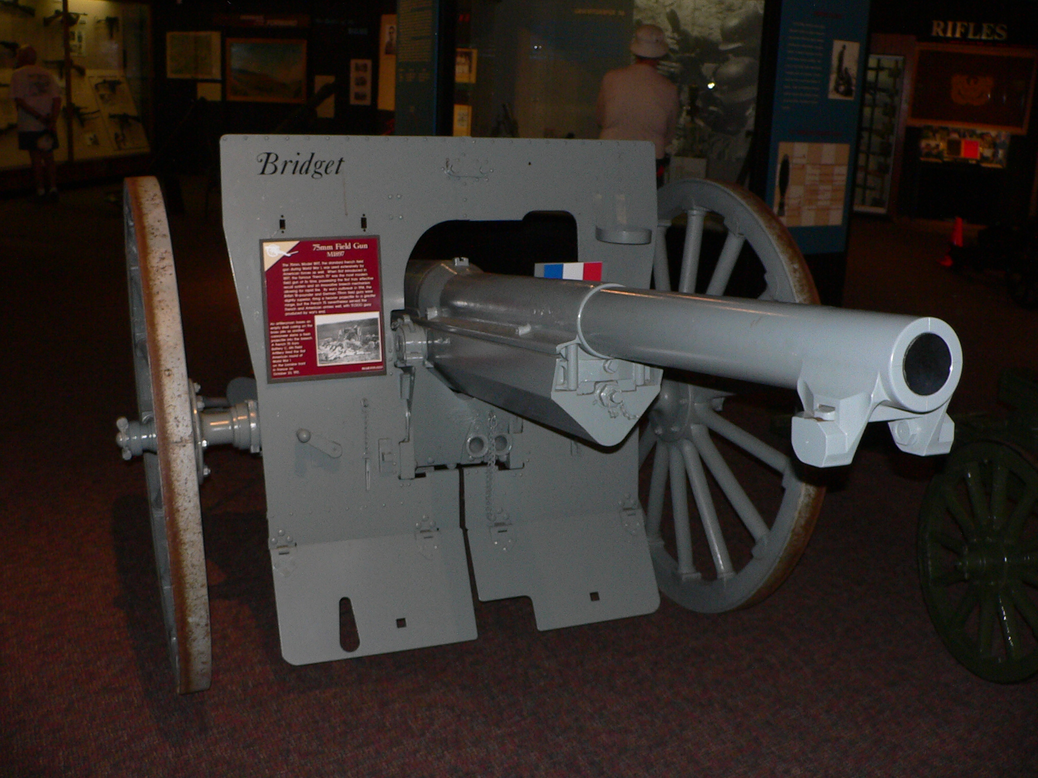 At the United States Army Ordnance Museum (Aberdeen Proving Ground, MD). 75 mm field gun M1897 "Bridget", which fired the first US artillery round in action in World War I. See : Image:Field-artillery-beaumont-france.gif - the gun in action in WWI. Image:75mm field gun m1897 1.jpg Image:75mm field gun m1897 3.jpg